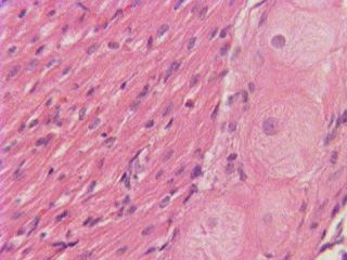 Purkinje fibers in H&E stained cardiac muscle.